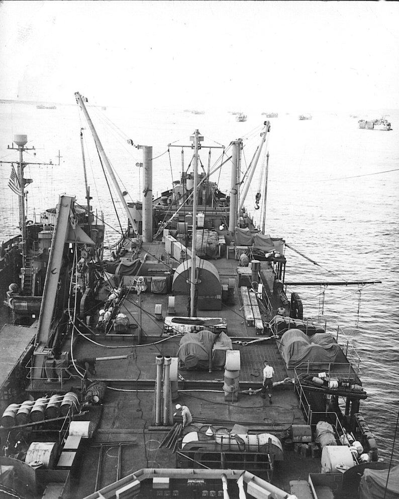 USS Patroclus (ARL-19) anchored at Tinian, Marianas Islands with an unidentified LSM alongside to port, date unknown. A good view of the ships 15 and 20 ton booms as well as the 60 ton A-frame boom.